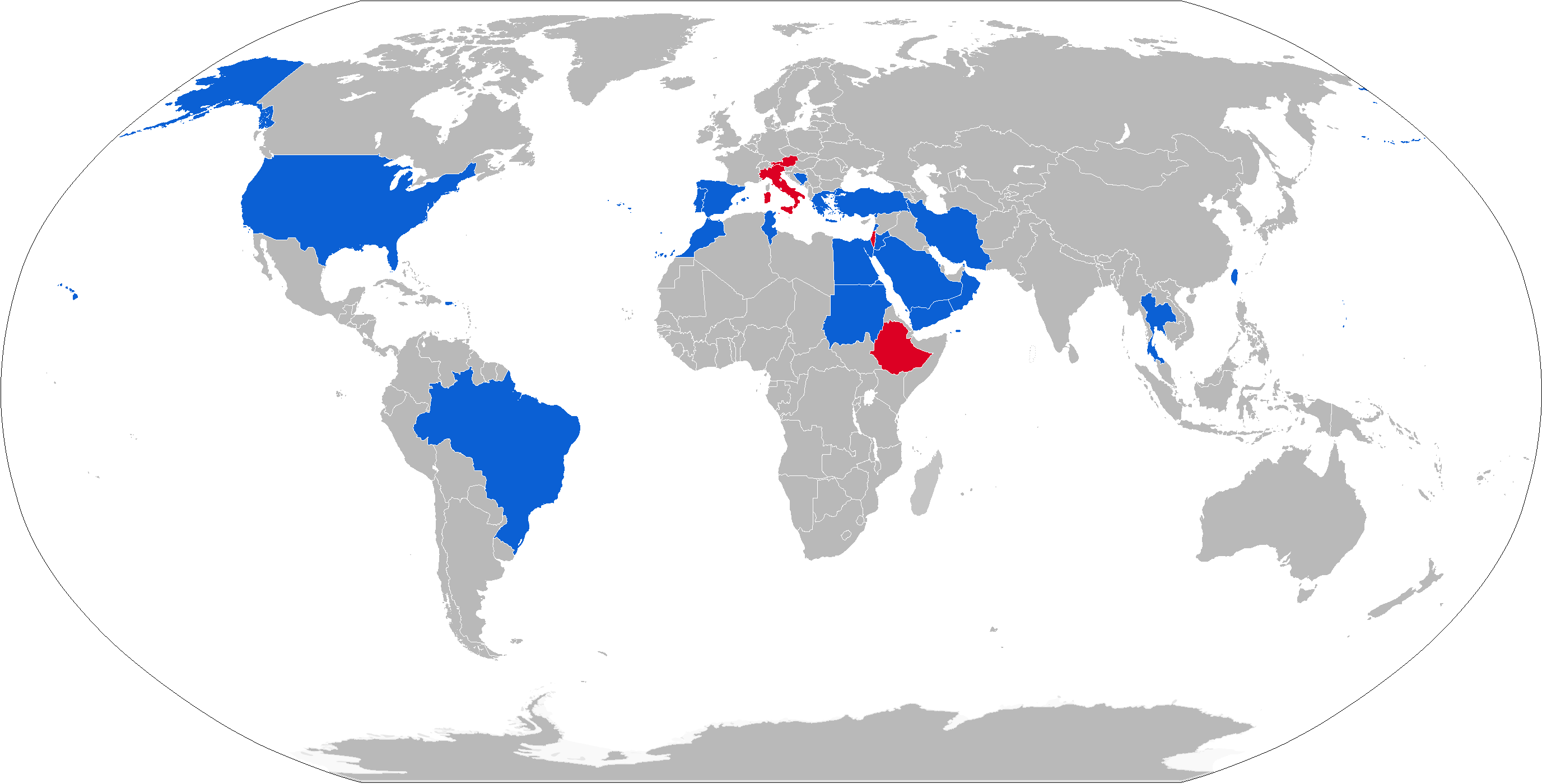 Map of M60 Patton operators